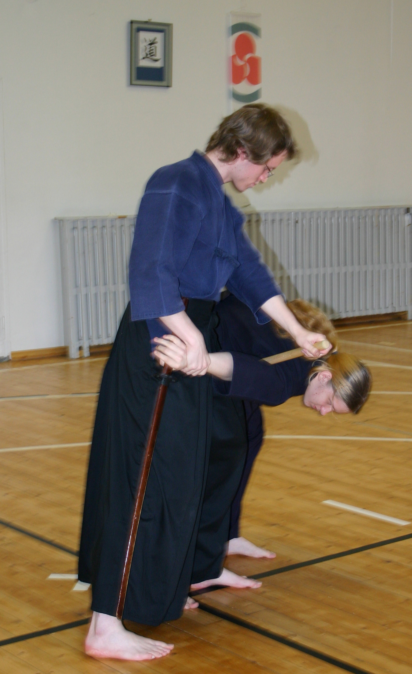 Uchida-ryū tanjōjutsu_technique